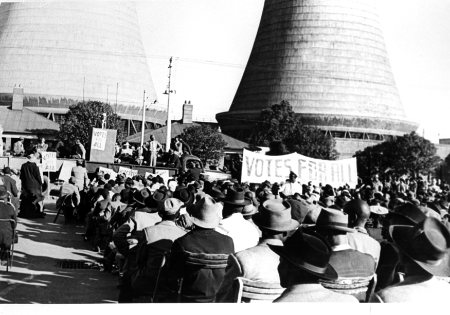 DPD/February,54,A31qPhotograph showing a section of a coloured gathering in South Africa, with huge banners, demanding votes for all. Photo Number:-37142